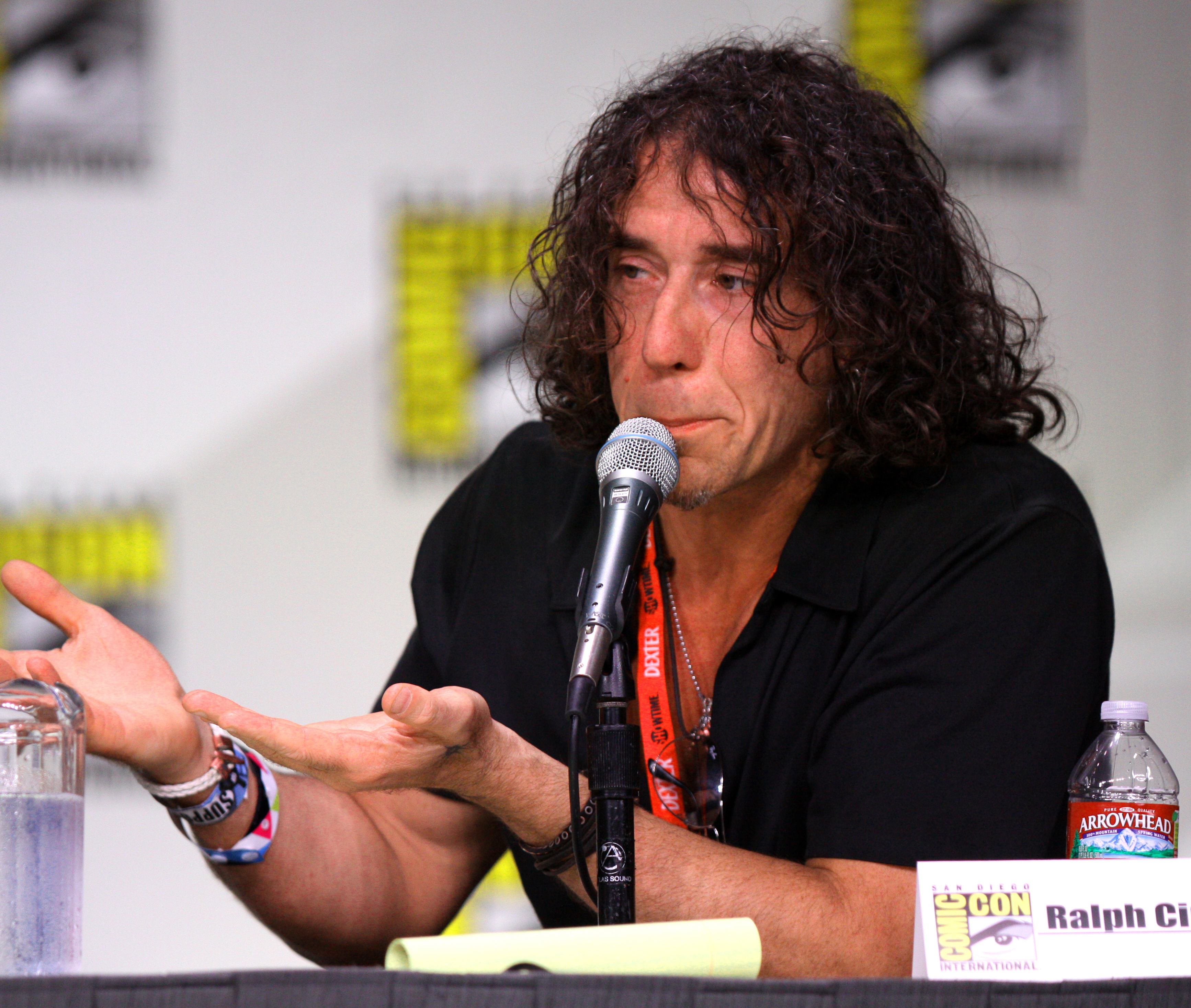 Ralph Cirella at the 2011 Comic Con in San Diego